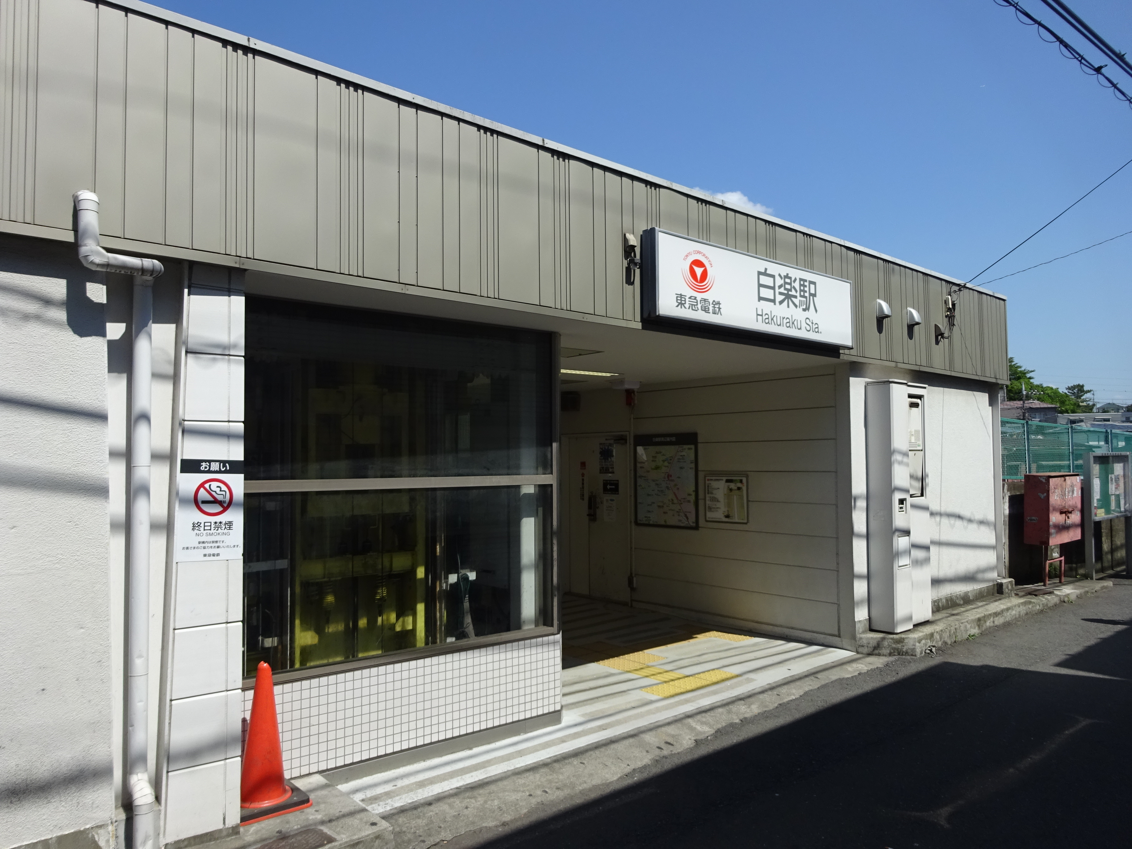 East entrance of Hakuraku Station